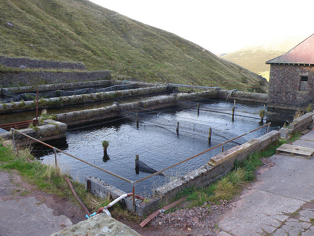 Trout Farm. Marked on the map as filter beds, these now seem to be utilised as a fish farm. With the sun going down there were quite a few fish jumping. Despite my best efforts I could only get splashes. To see how it should be done then head for 208439.